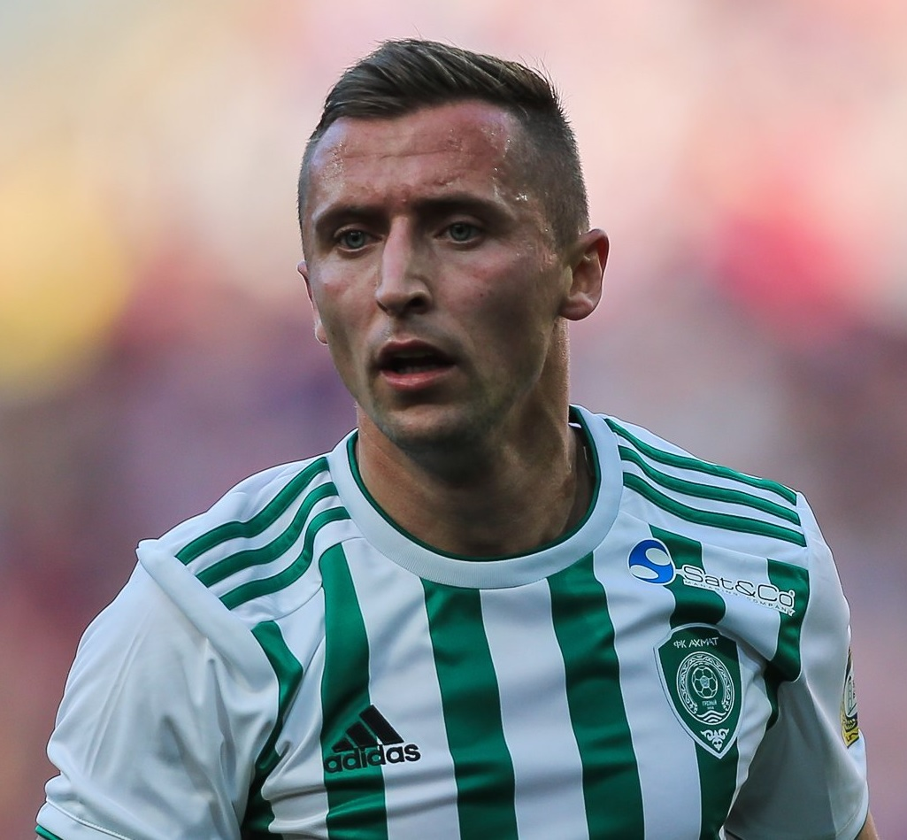 Bernard Berisha with FC Akhmat Grozny in a game against PFC CSKA Moscow.